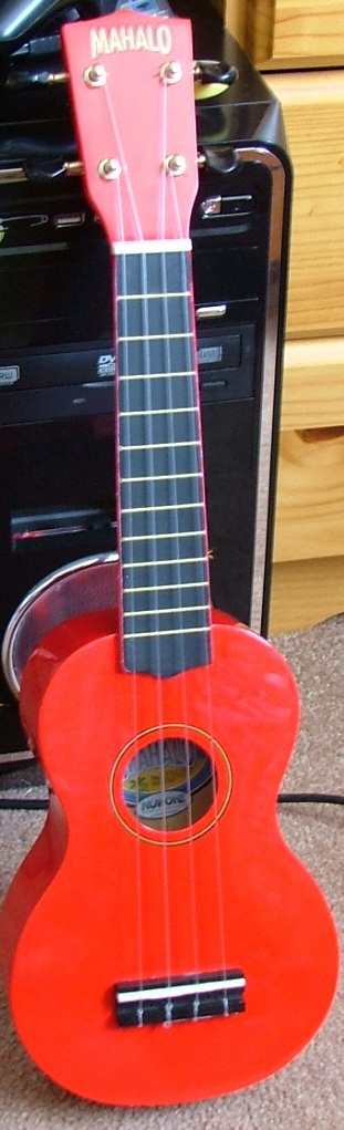 A Red Mahalo soprano ukelele